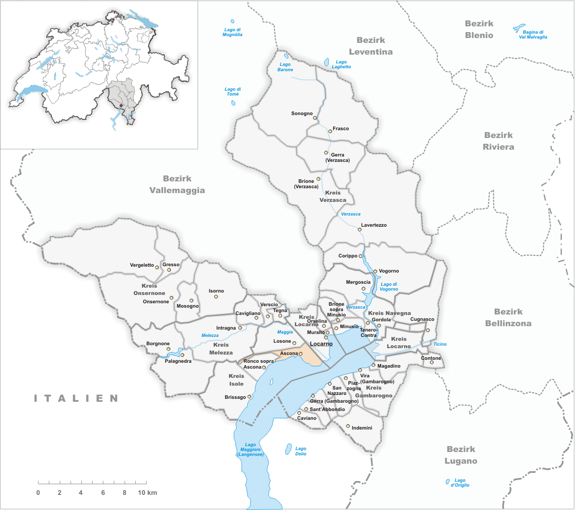 Municipality Ascona